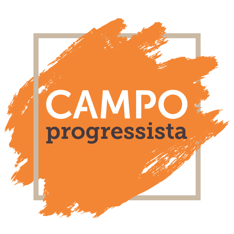 Symbol of Italian political party Campo Progressista (2017).